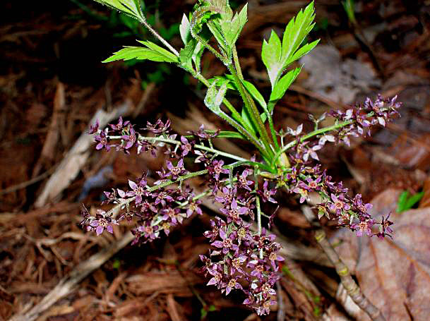 Yellowroot flowers in spring.